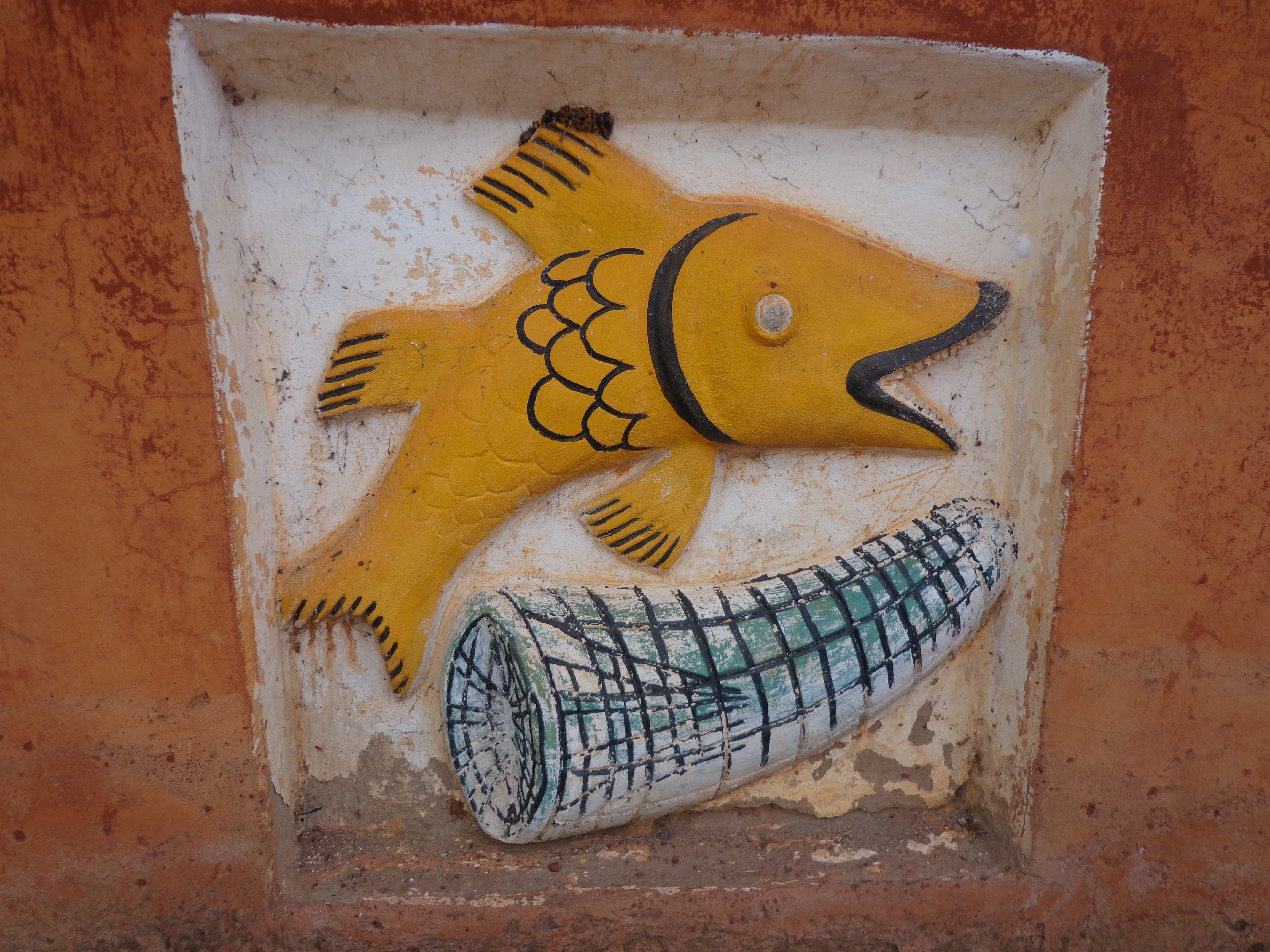 Royal Palaces of Abomey